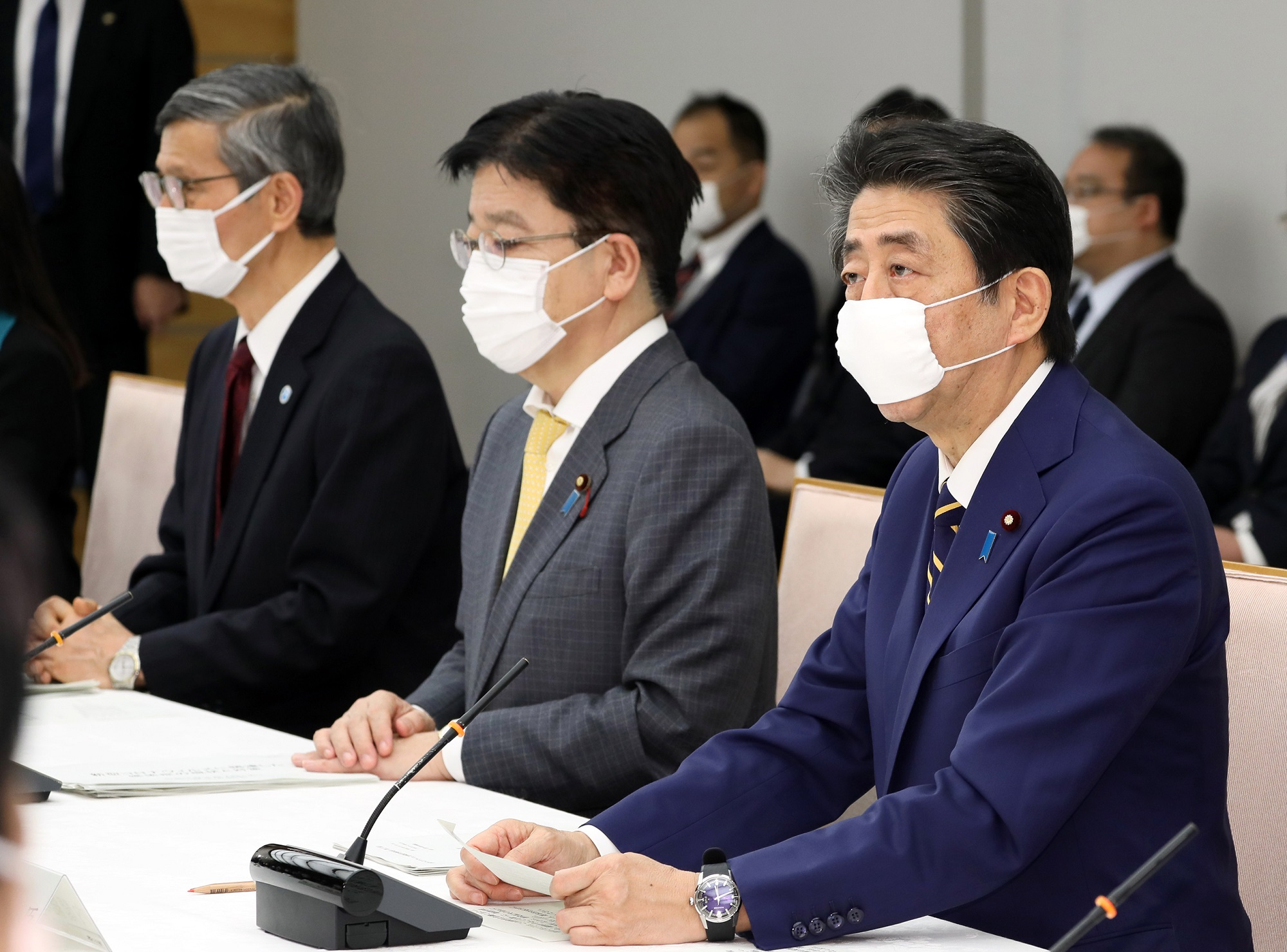 Shinzō Abe, Prime Minister, and Katsunobu Katō, Minister of Health, Labour and Welfare, attended a meeting of the Novel Coronavirus Response Headquarters with Shigeru Omi, Chairman of the Advisory Committee on the Basic Action Policy, Advisory Council on Countermeasures against Novel Influenza and Other Diseases, Ministerial Meeting on Measures Against Avian Influenza, at the Prime Minister's Official Residence in Chiyoda Ward, Tōkyō Metropolis on April 7, 2020.